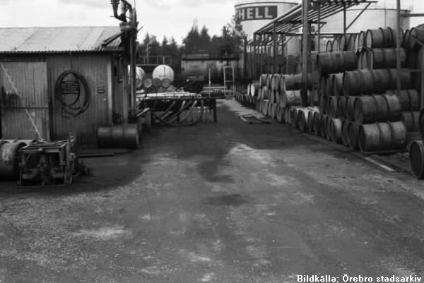 The old oil harbour in Örebro, Sweden